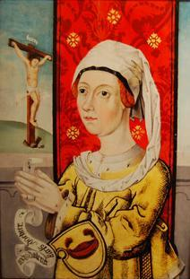 Princess Magdalene of Sweden (1443-1495), daughter of King Carl II